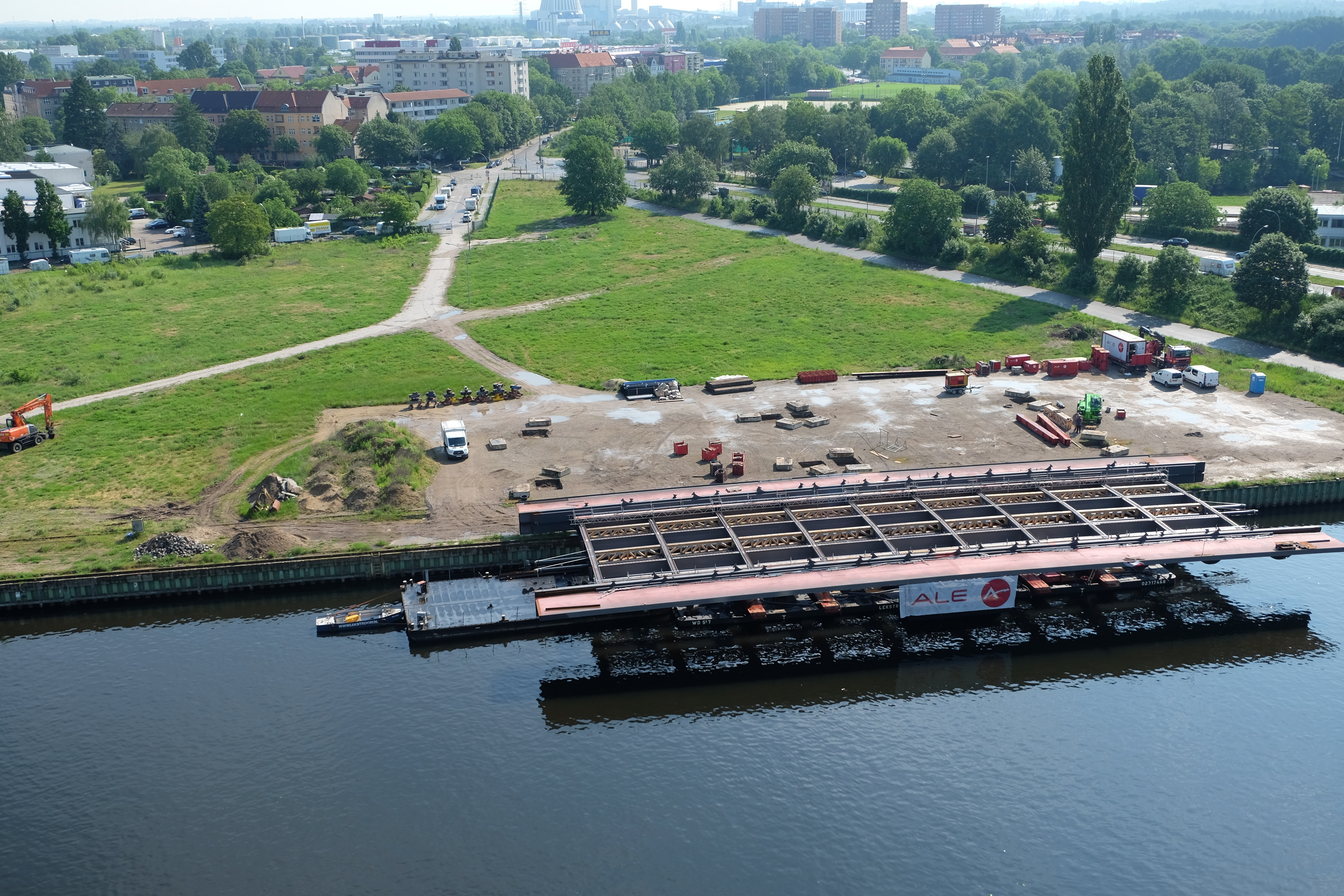 Frey Bridge Berlin-Spandau. Loading of the central piece of the bridge on June 2, 2016 Oberhafen of South Haven north of Schulenburg Bridge by a Dutch company